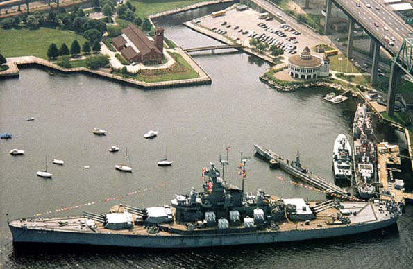 View of Fall River Heritage State Park (top left), Carousel (top right), and Battleship Cove (Bottom) in Fall River, Massachusetts, USA.